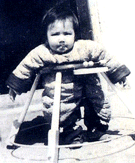 Ma Ying-jeou, as a child, is less than one year old. The photo was photographed in Lai Chi Kok, Kowloon, Hong Kong.